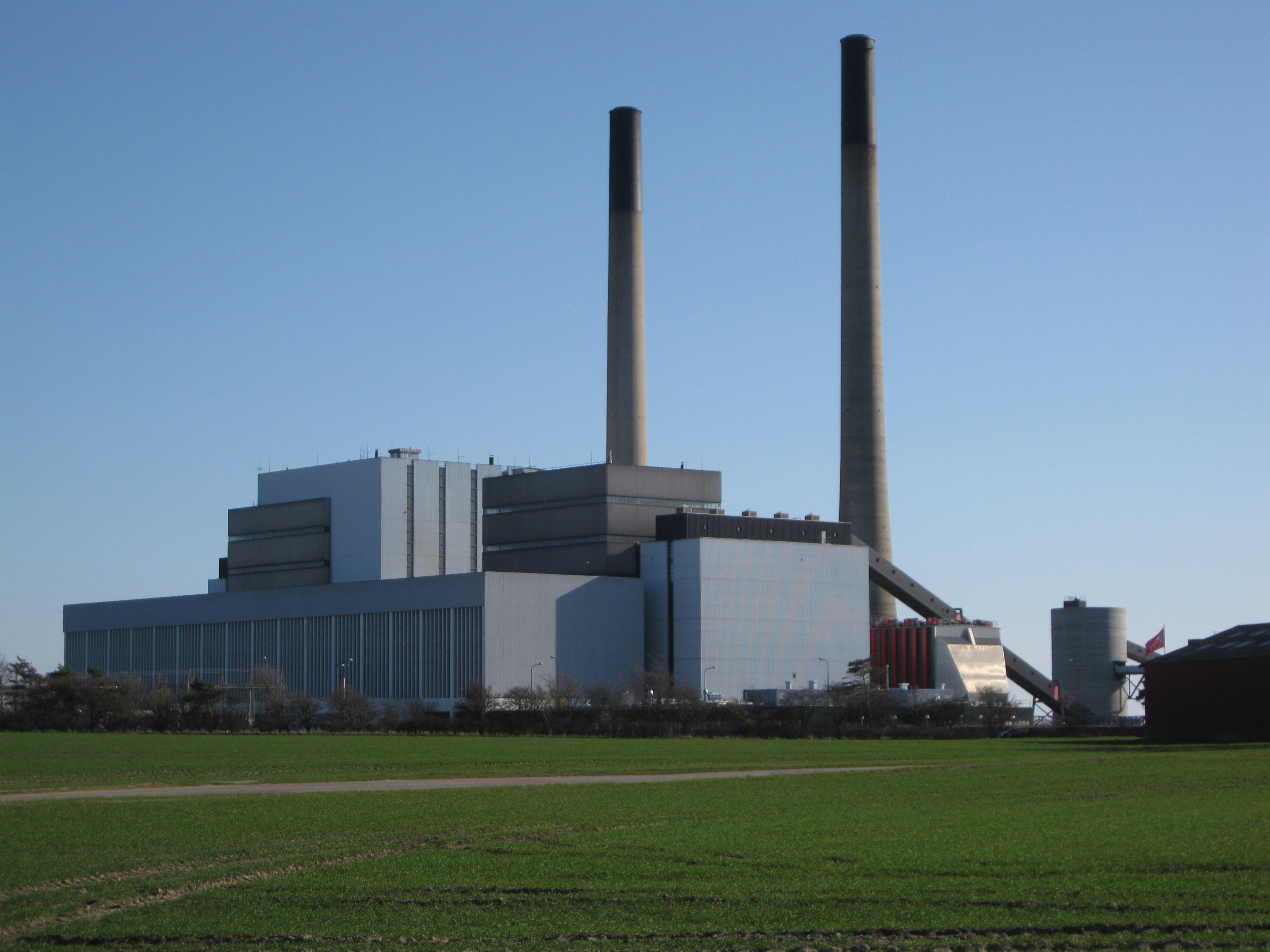 The power plant "Stigsnæsværket" nearby the town Skælskør. The place is located in West Zealand, Denmark.